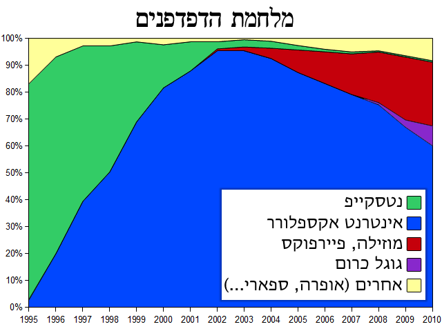 Browser Wars He